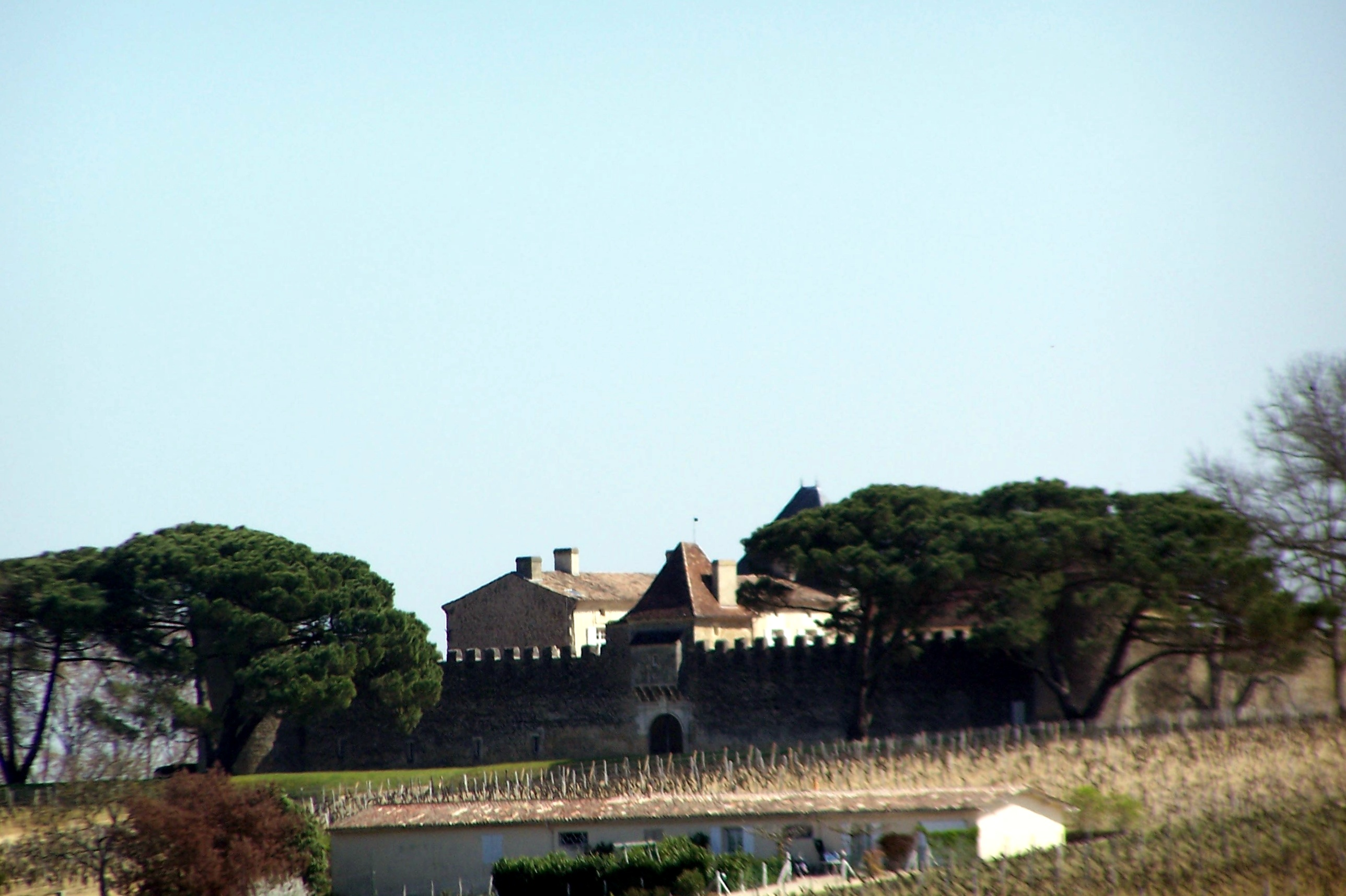 Face West of the Château d'Yquem in Sauternes (Gironde, France)